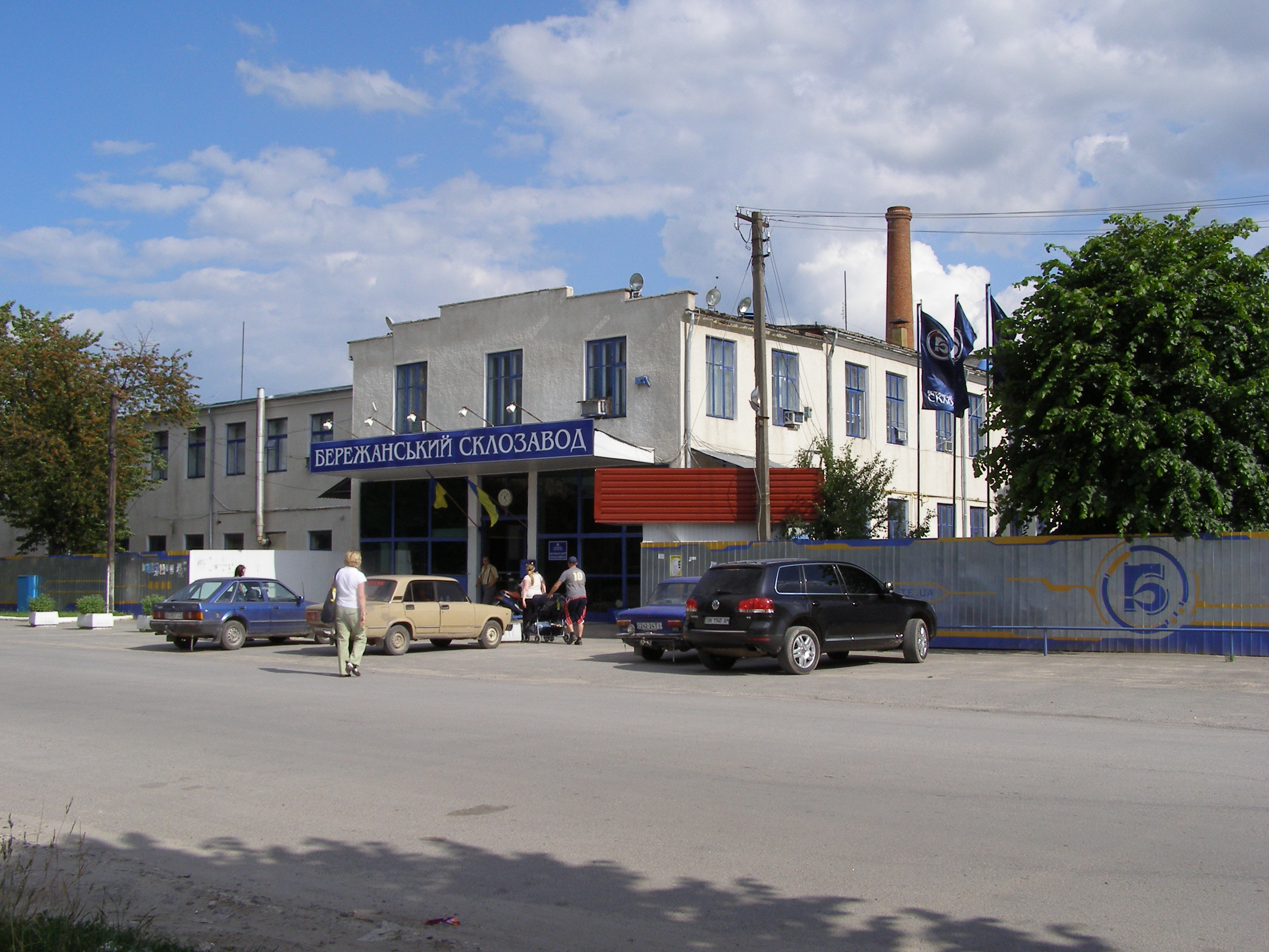 Glass factory in Berezhany, Ternopil region, western Ukraine.